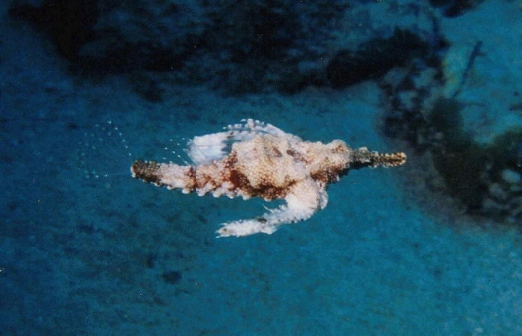 Short dragonfish at the Stella Maru wreck off Trou aux Biches, Mauritius